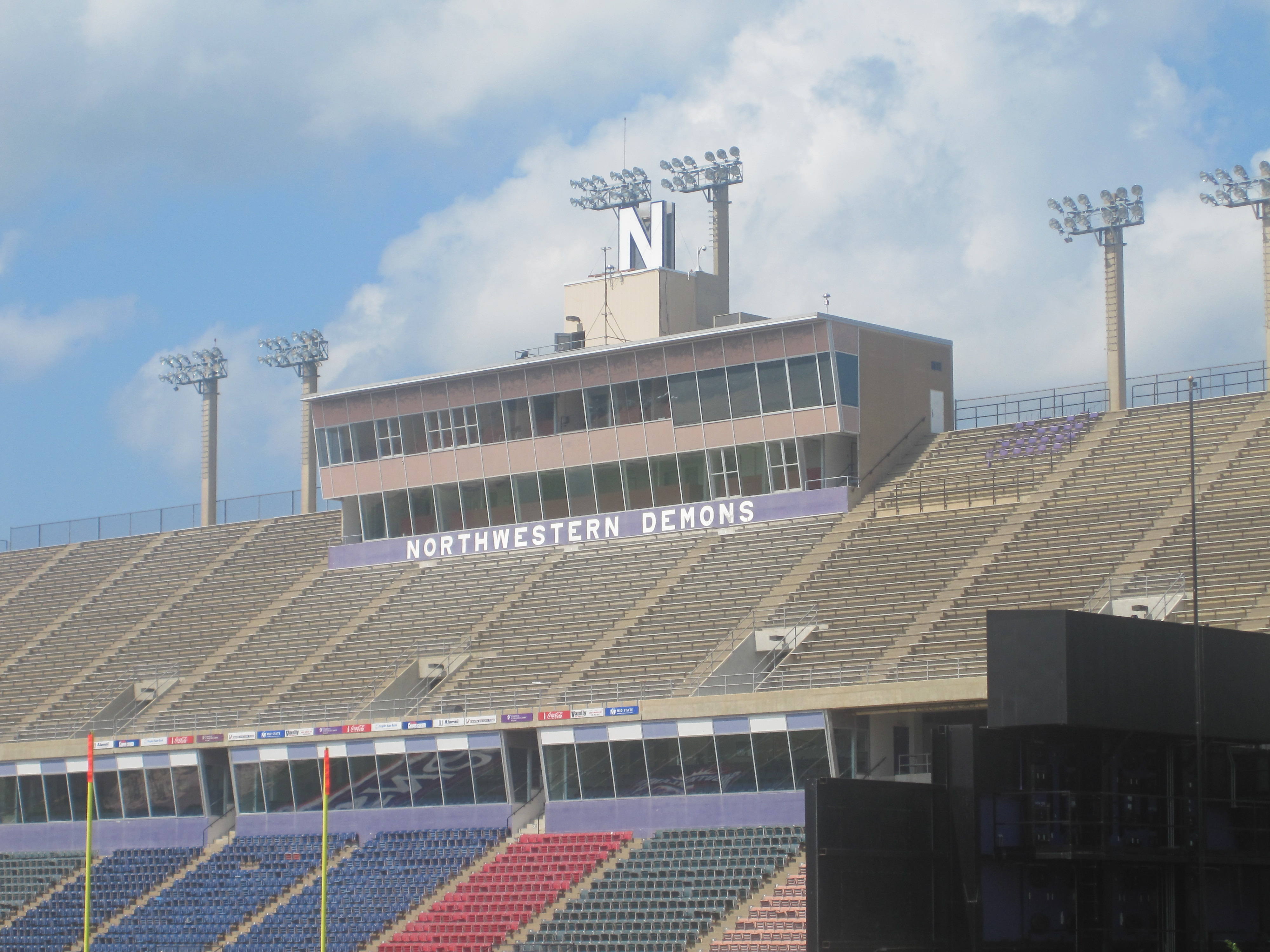 NSU Demons logo, Natchitoches, LA